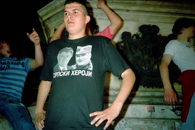 Radovan Karadžić and Ratko Mladić on t-shirt worn by Serbian youth. The caption on the t-shirt reads "Српски хероји", "Serbian heroes".serbian youngsters